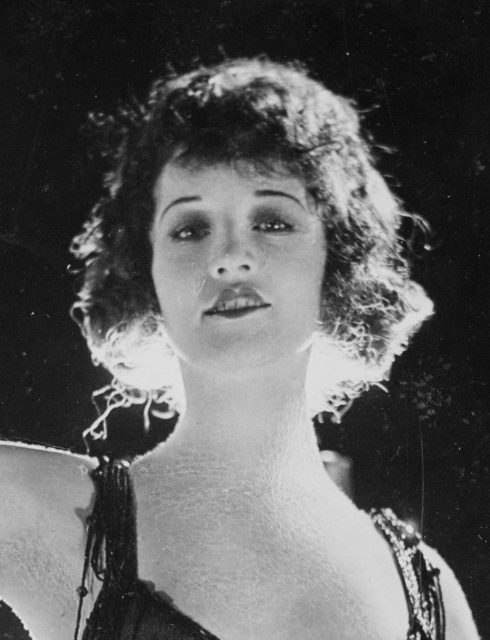 Betty Compson